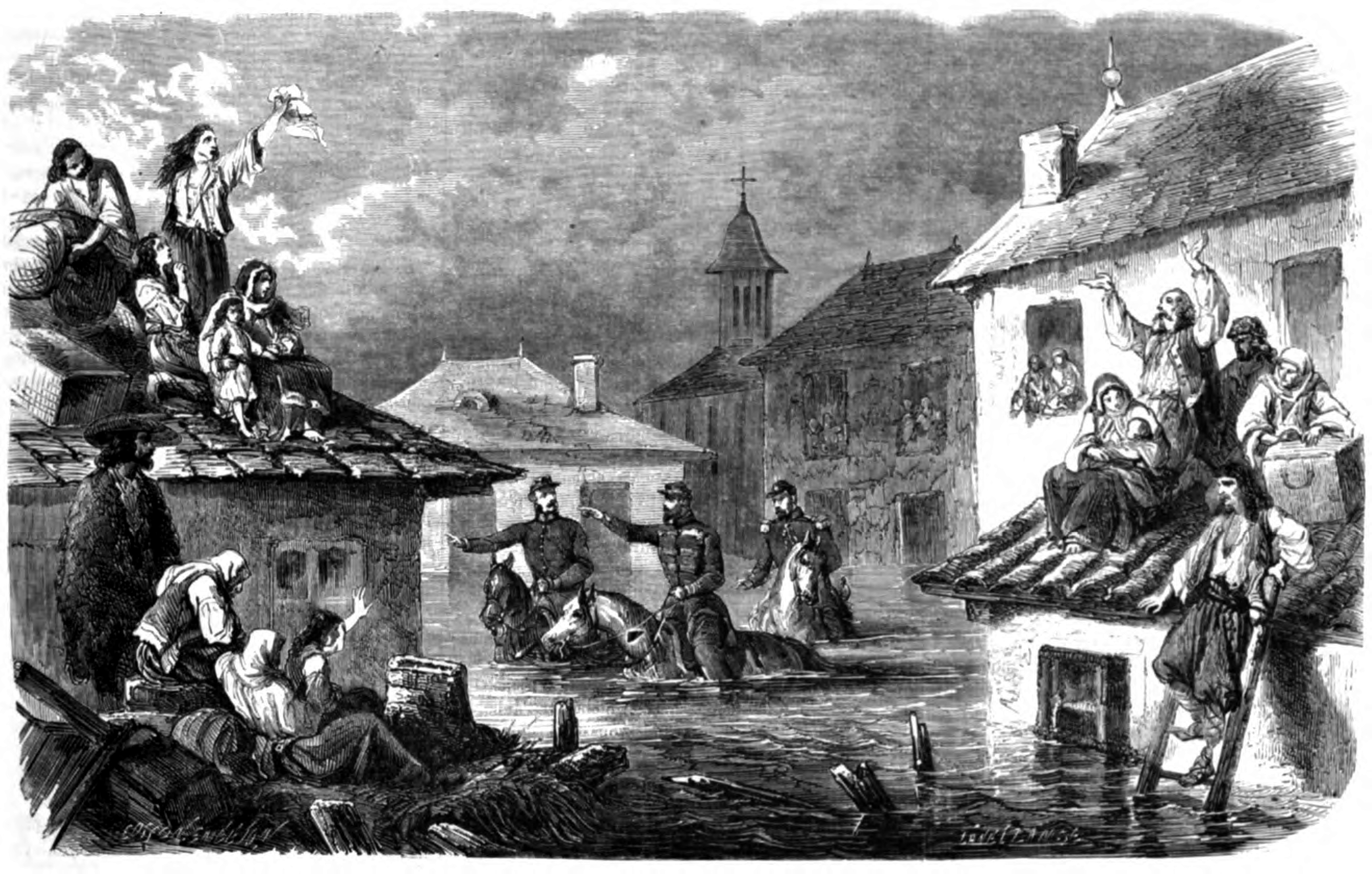 Prince Alexandru Ioan Cuza and Dr. Carol Davila visiting the Tabaci neighborhood of Bucharest during the 1862 floods. Tabaci is a former neighborhood name, referring to the area near the present-day Timpuri Noi metro station. It was once the neighborhood of tanners (Rom: tăbăcarii). There is a still a church called Biserica Apostol Tabaci at Str. Mircea Vodă (formerly Calea Văcăreşti) Nu. 143 / Str. Nerva Traian / Aleea Apahida. (in Romanian) for more information.